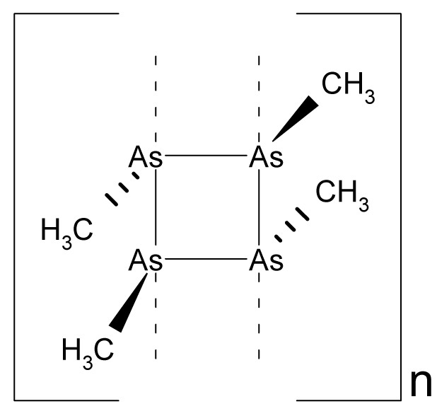 Polyarsin (polymere Arsenverbindung) / Polyarsine (polymere Arsenic-Compound)